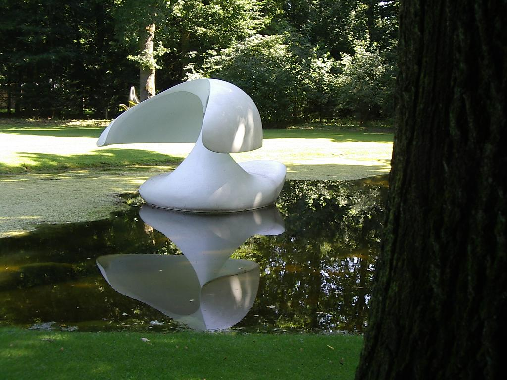 White Swan-like Sculpture in a pond.